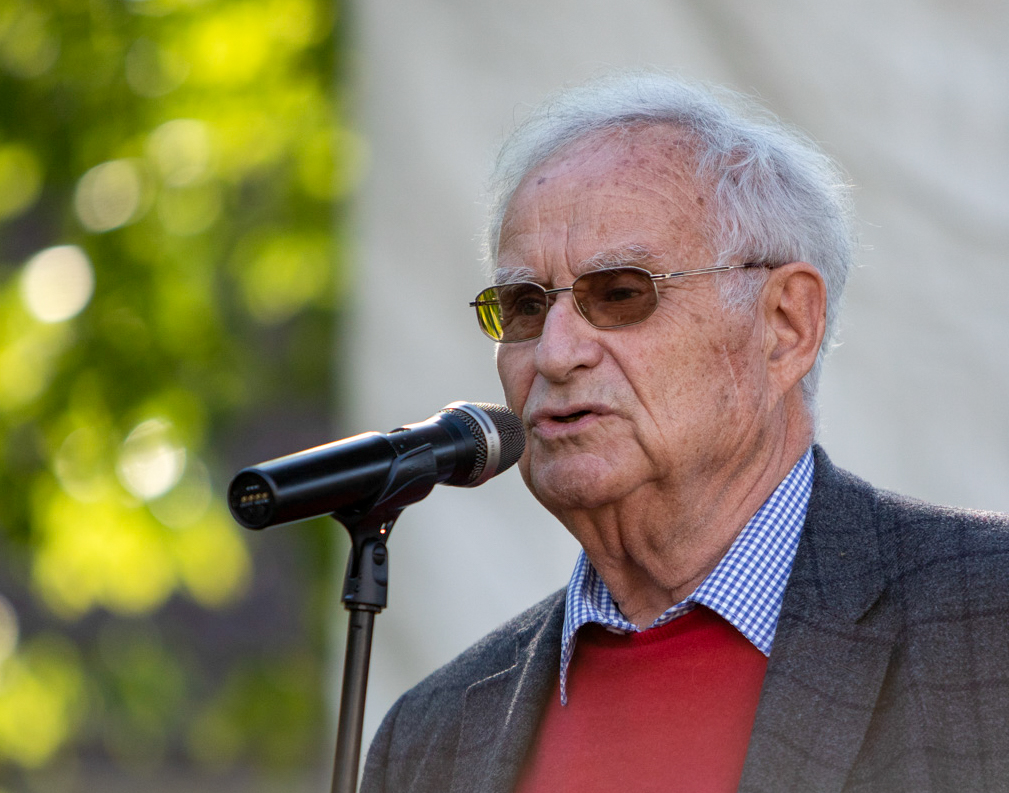 Ado Schlier